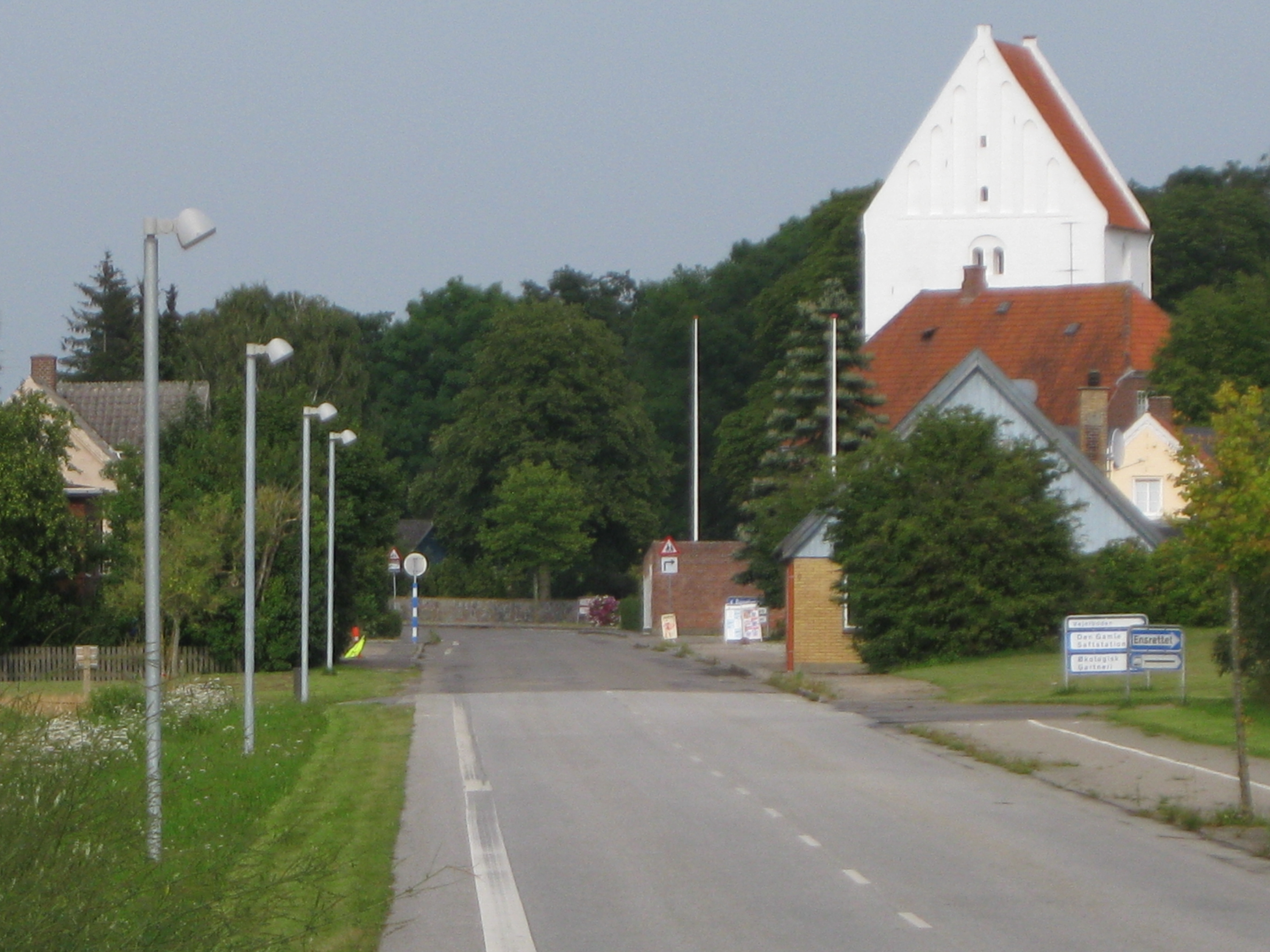 The village "Horslunde" located on the island Lolland in east Denmark.